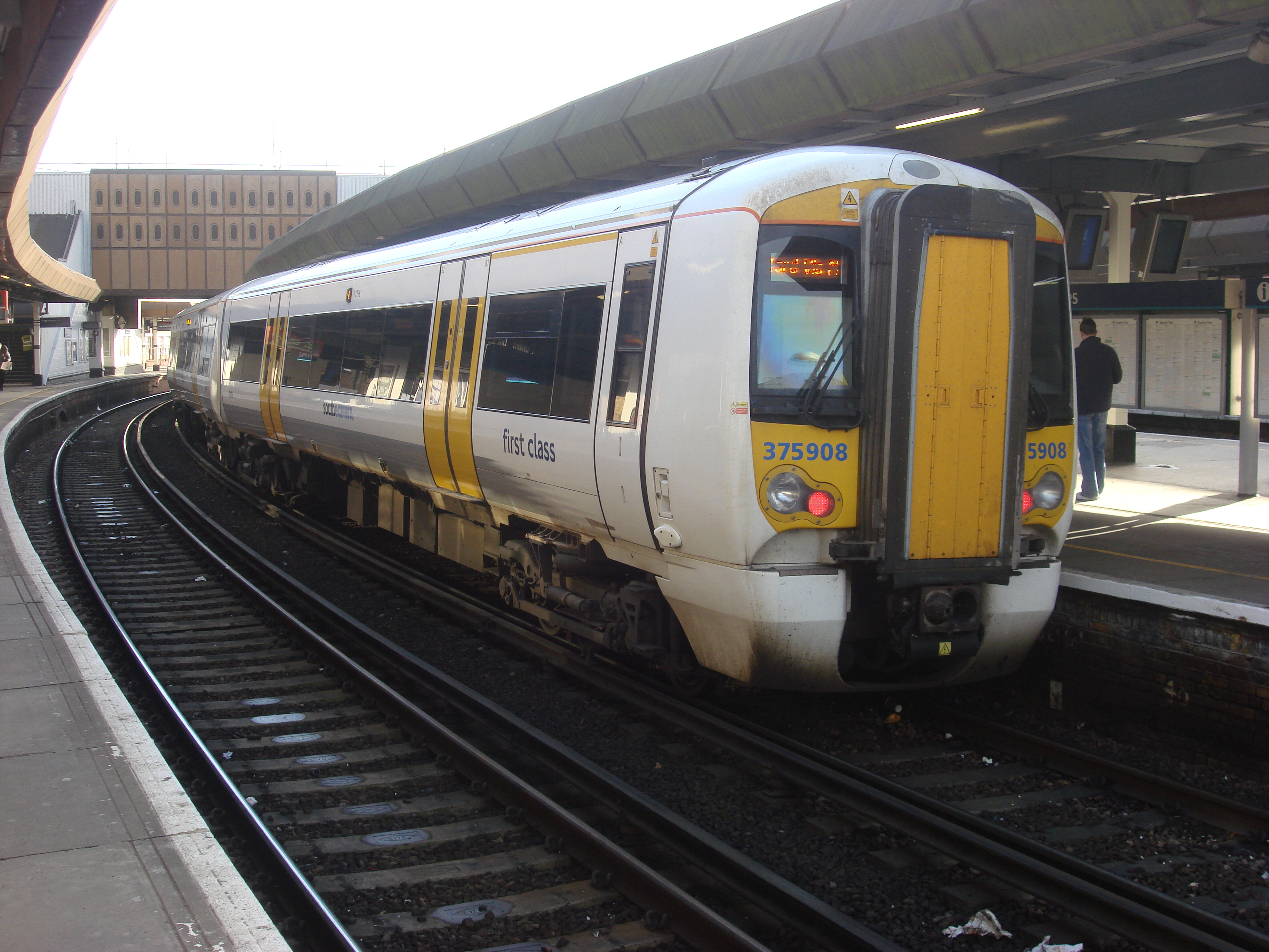 375908 at London Bridge station